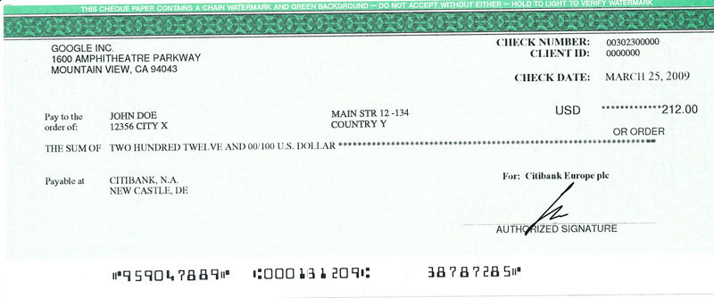 Cheque from Google AdSense